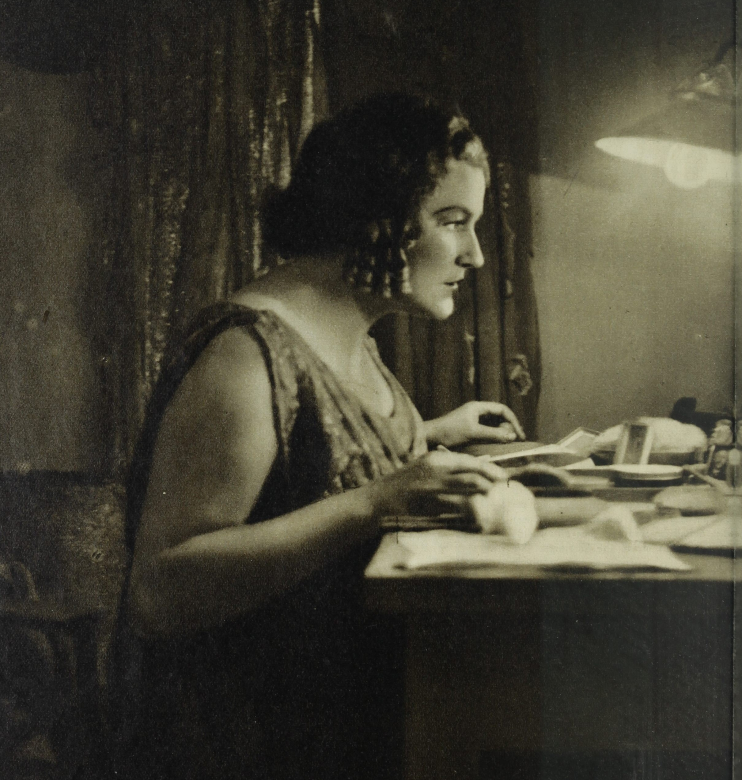 Viorica Ursuleac (1894 in Chernivtsi, Bukovina, Austrian Empire – 1985 in Ehrwald, Tyrol, Austria); Austrian opera singer (dramatic soprano). Before her appearance as Egyptian Helen. Salzburg Festival 1934.